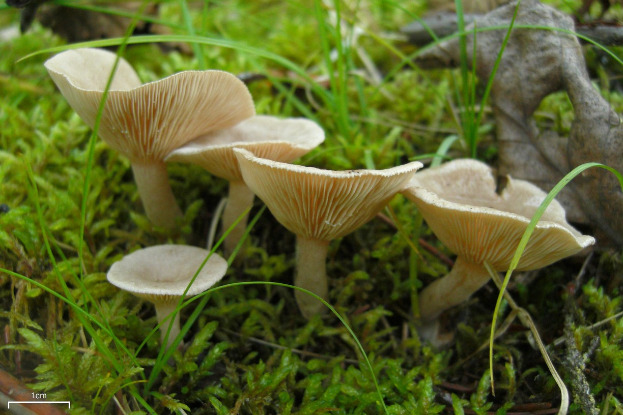 Lactarius glyciosmus (Fr. ex Fr.) Fr. 20090907.5 Wells Gray Park, BC This neat little milky-cap smells just like coconuts, especially when drying or when you place a drop of lye on it (which also causes a faint yellow reaction).